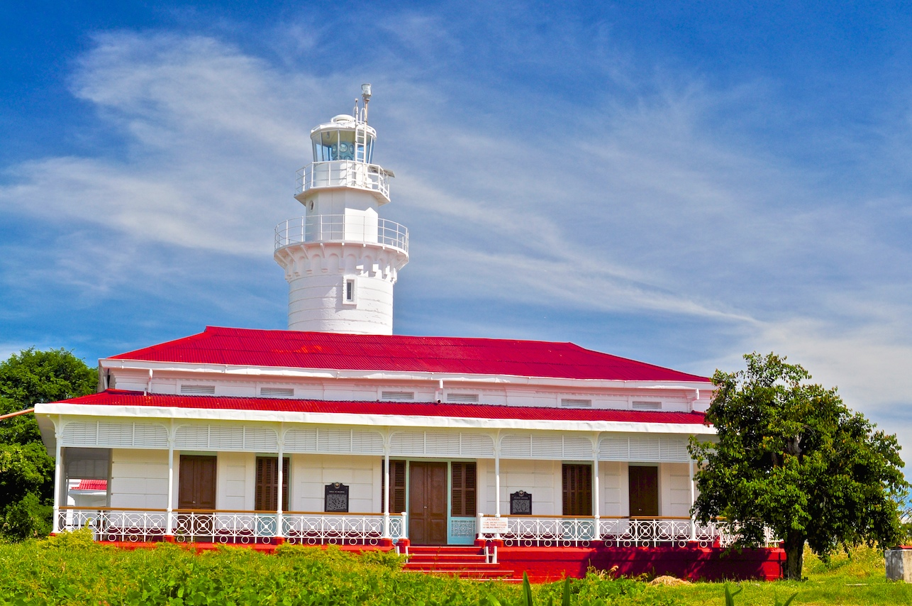 Known as the Faro de Punta de Malabrigo, Designed in 1891 by Guillermo Brockman, and built by by jose Garcia in 1896,declared as national landmark in November 27, 2006. An outstanding work of architecture from the spanish colonial period, it has served as beacon to sea vessels at the Verde Island Passage.